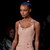 Jasmine Tookes walks the runway at Herve Leger Fall/Winter 2014 show at New York Fashion Week, February 2014.